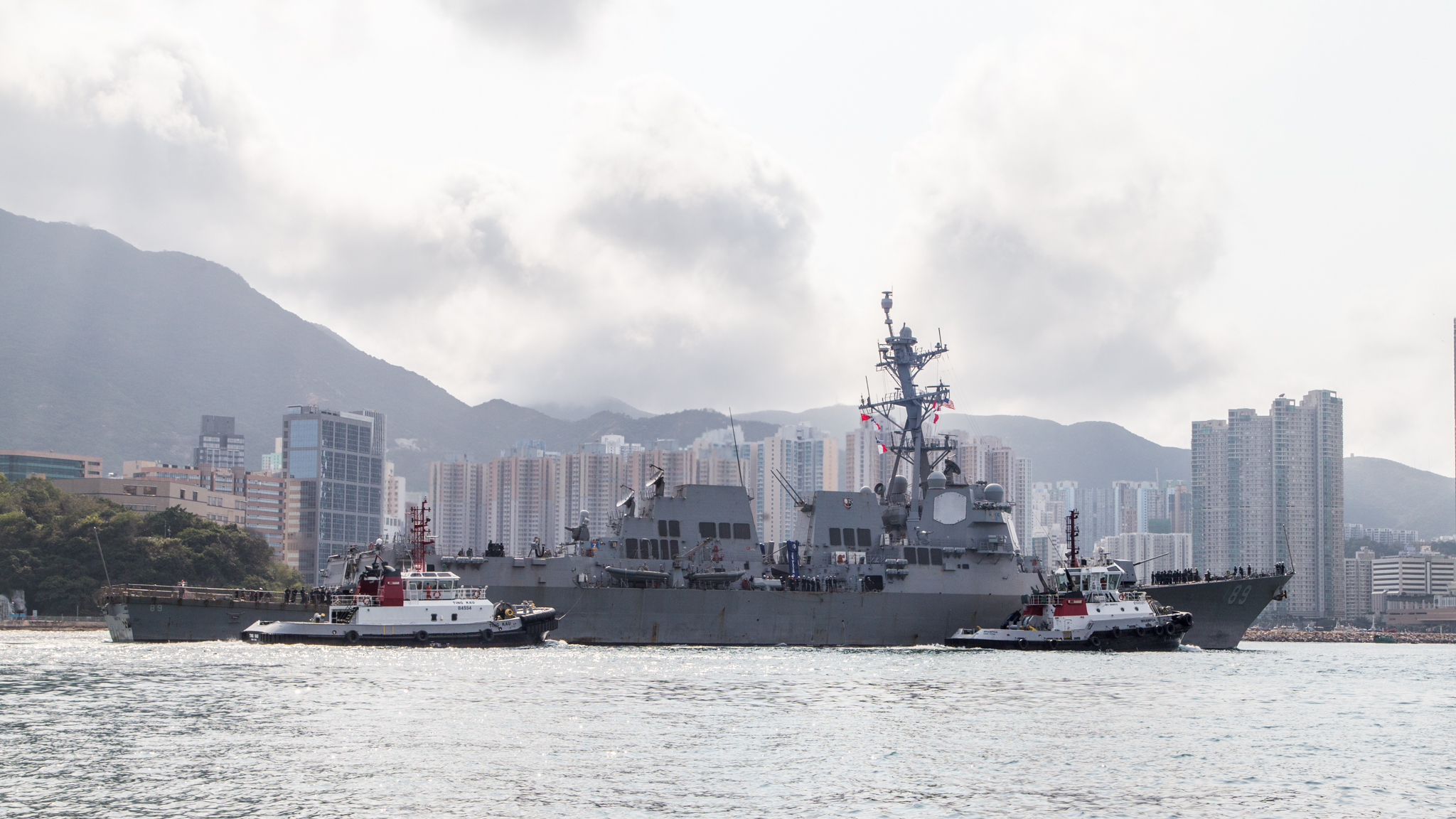 USS Mustin (DDG-89) visit Hong Kong in 13 feb 2016